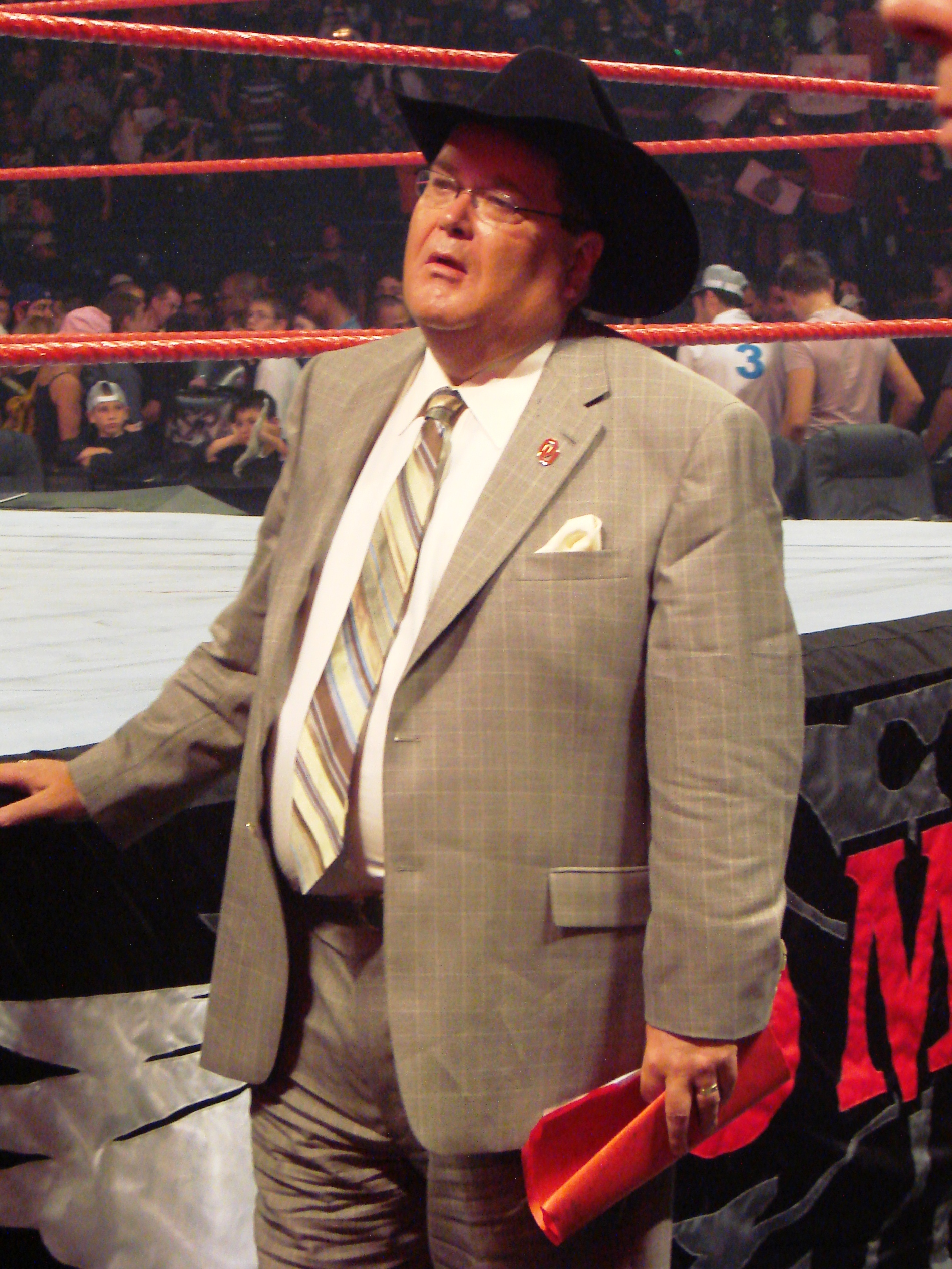 Jim Ross at WWE No Mercy 2007. Allstate Arena, Rosemont, Illinois, October 7, 2007. Taken by me, rotated, cropped, and brightened.